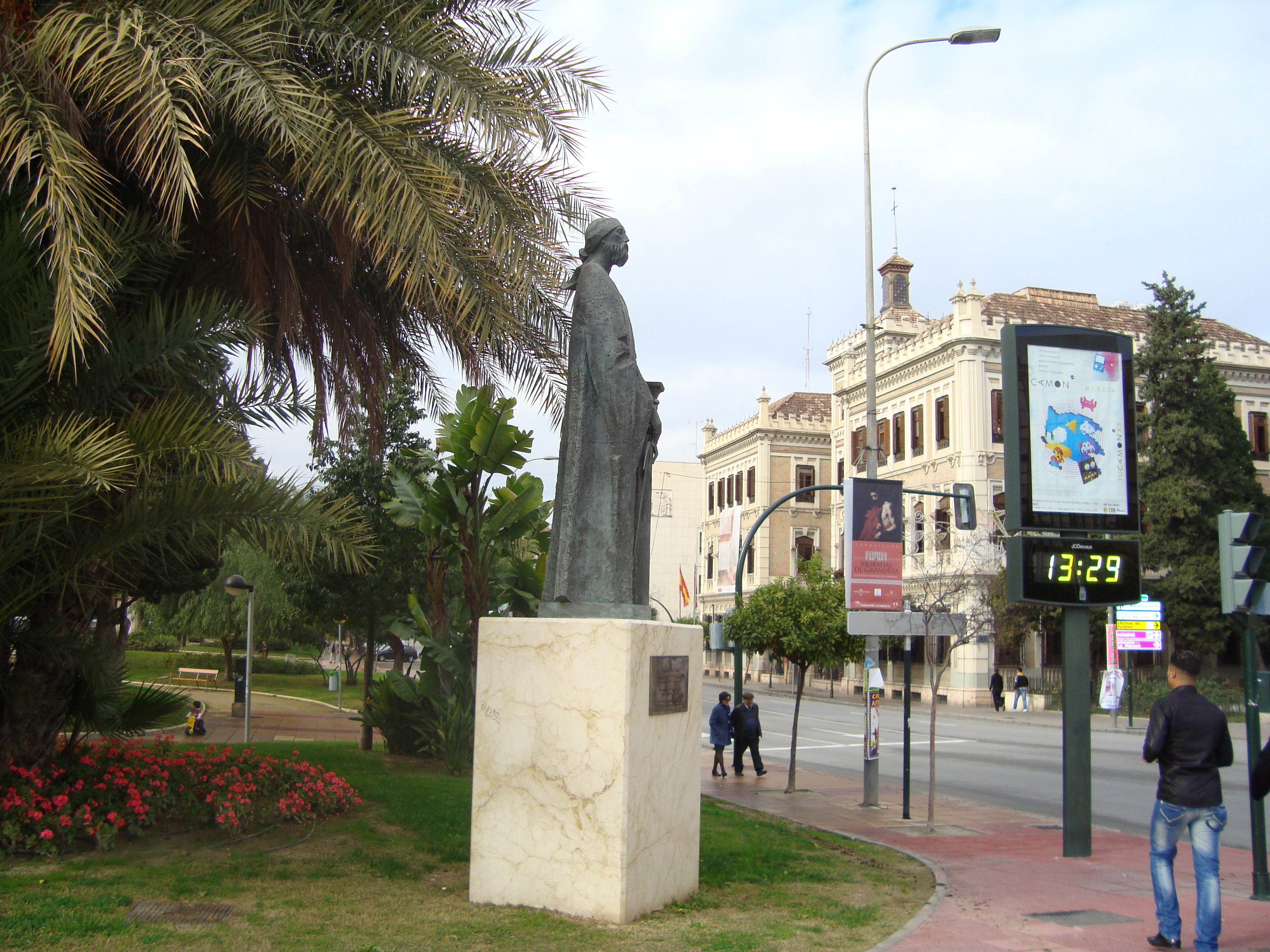 Rahmán II statue in Murcia